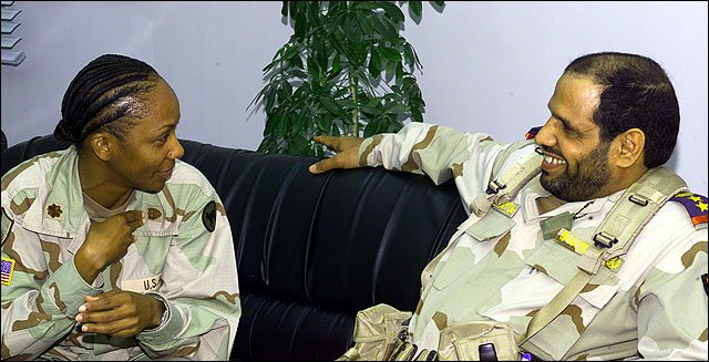 Maj. Gloria Thomas of the 322nd military history detachment, based in Birmingham, Ala., interviews a Kuwaiti colonel about his experiences in Iraq. A handful of military historians are in Iraq collecting information that will someday be used to chronicle the war.